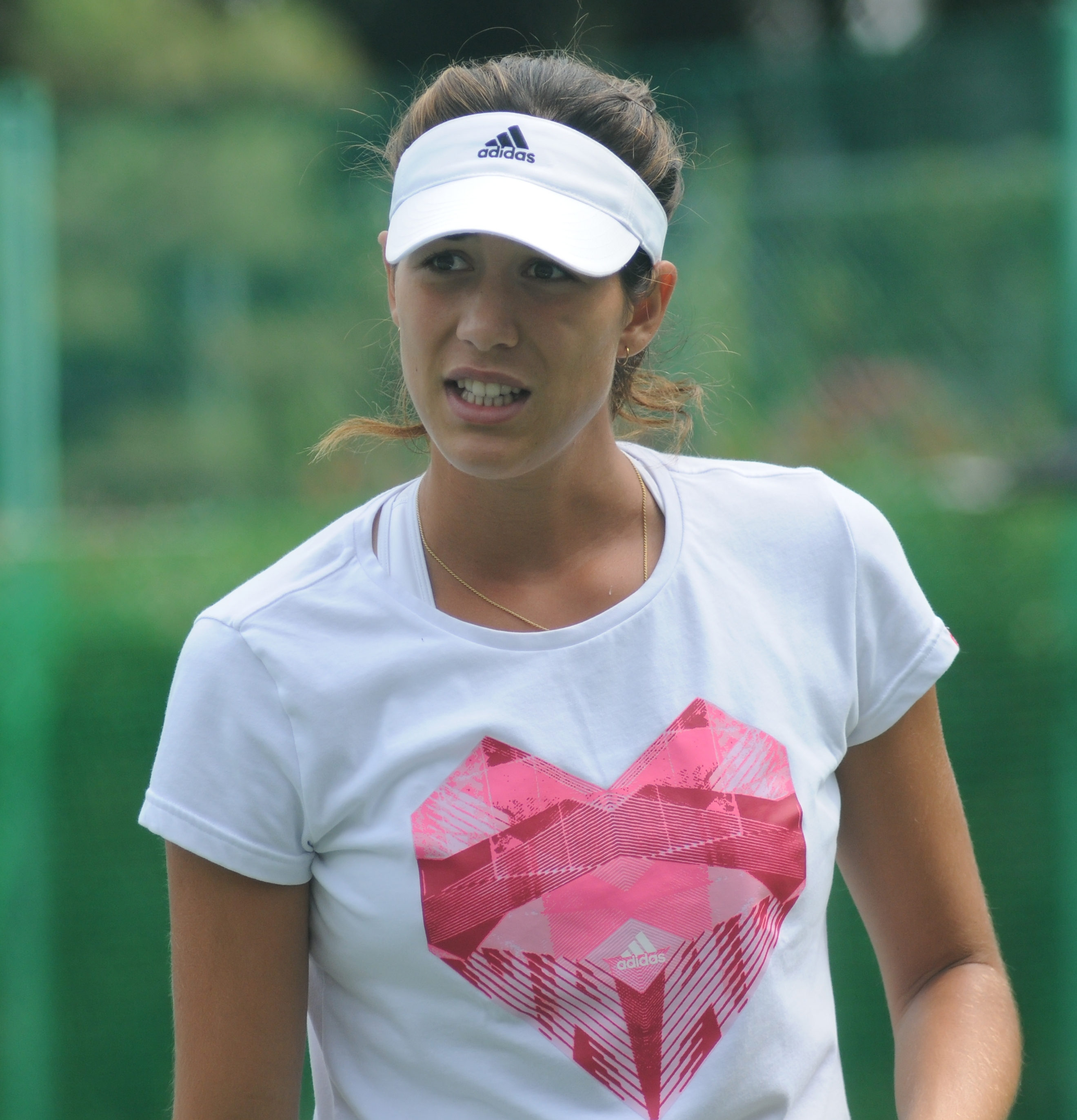 Garbiñe Muguruza at the 2014 Toray Pan Pacific Open